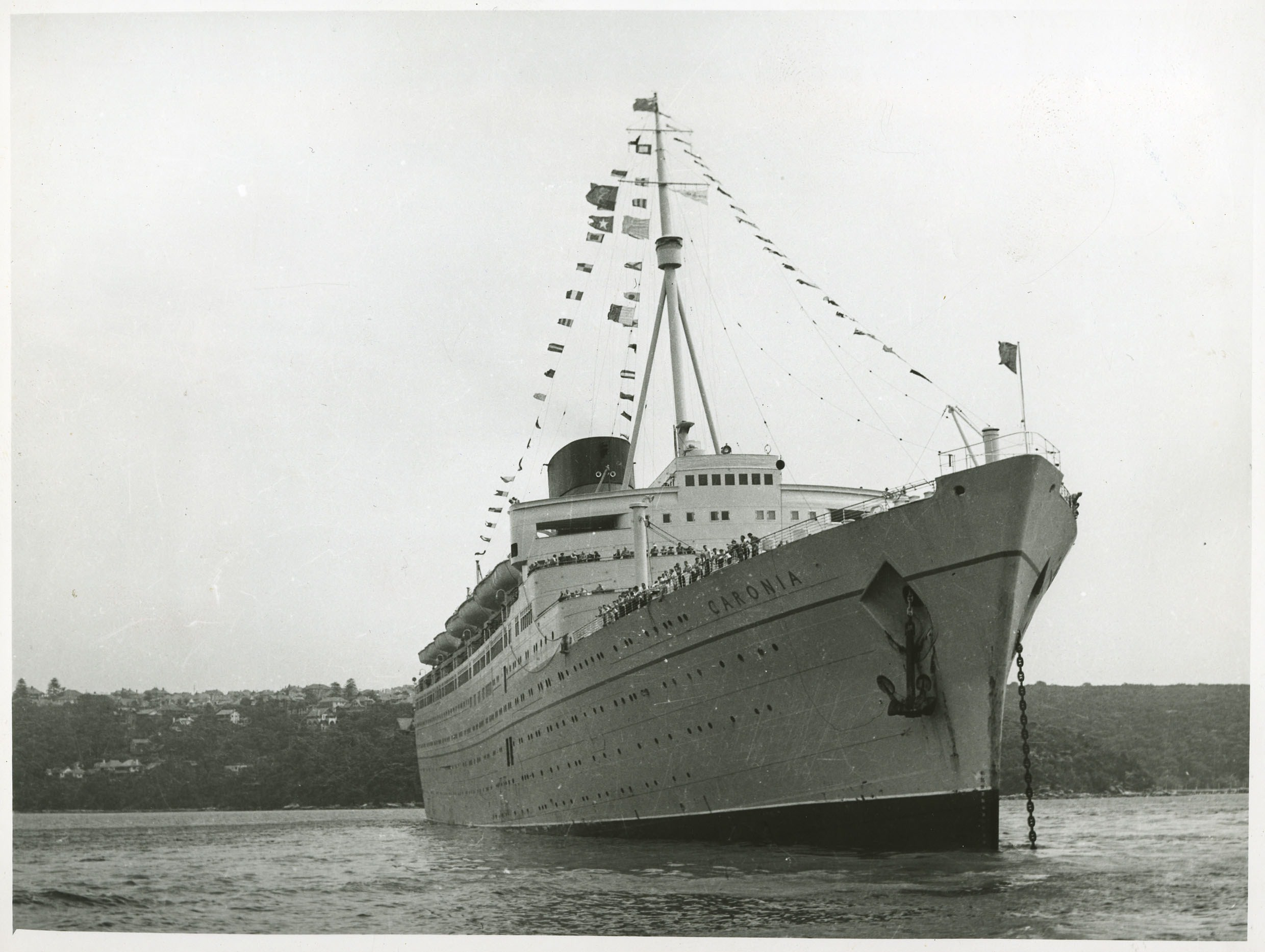 Photograph of the ship RMS CARONIA in Sydney Harbour, Sydney Australia. Starboard view looking from the bow of the ship, the ship is dressed all over with flags, and people line the decks. The anchor at the portside bow is down, in the background is a northern Sydney suburb and bushland - possibly Taronga Tark Zoo. On the reverse of the print is the handwritten inscription 'RMS CARONIA'. The ANMM undertakes research and accepts public comments that enhance the information we hold about images in our collection. Photographer: Henry Gawthorpe Object no. 00018040 ANMM Collection Gift from Henry Gawthorpe